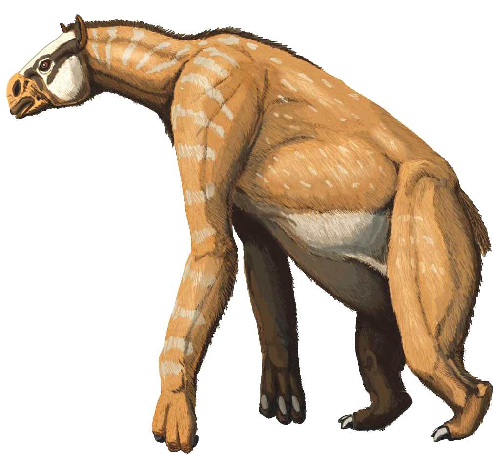 Chalicotherium